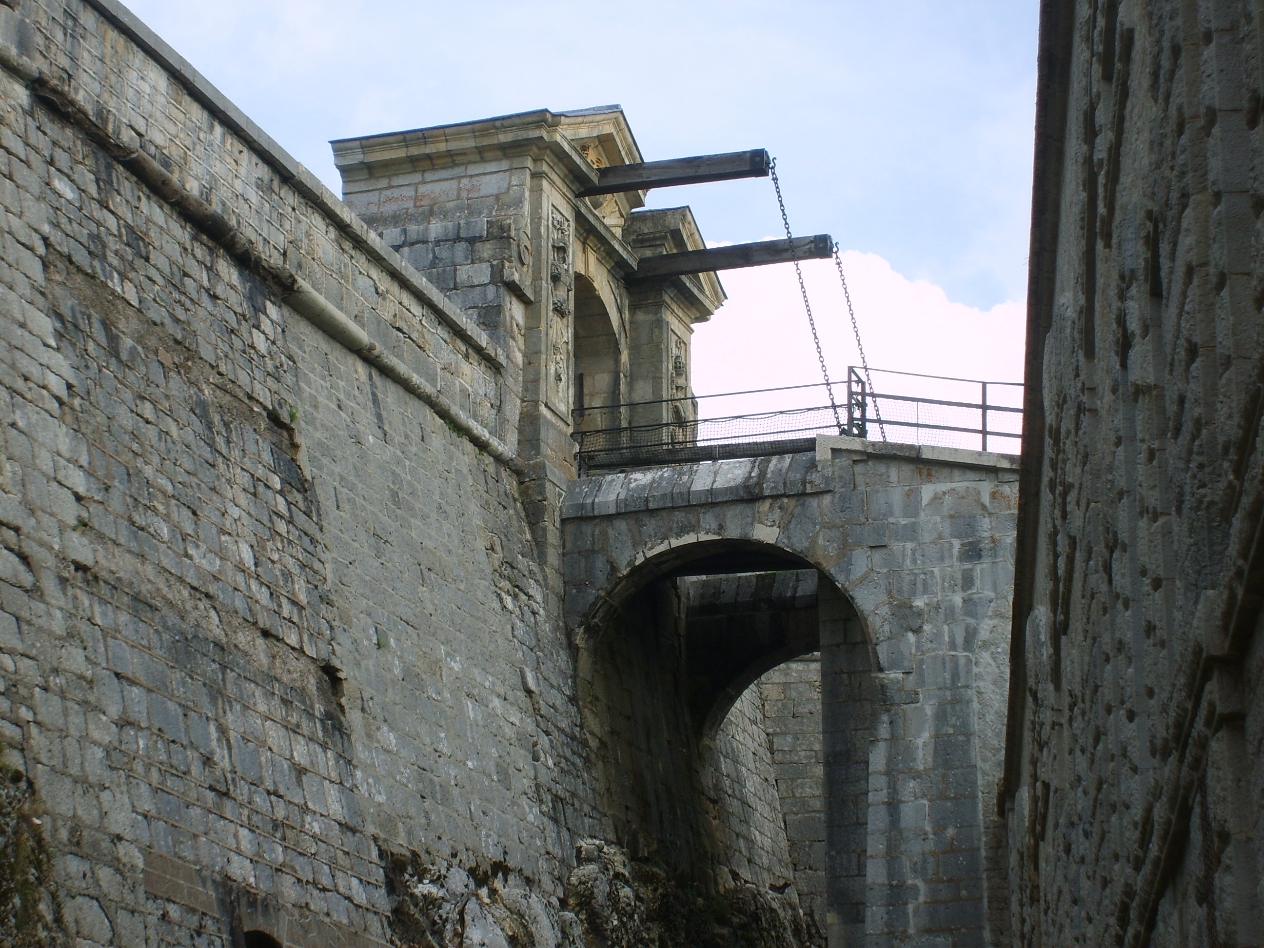 Drawbridge in Fort de Joux (Doubs) in France Publish by= User:Stephane8888 Self made